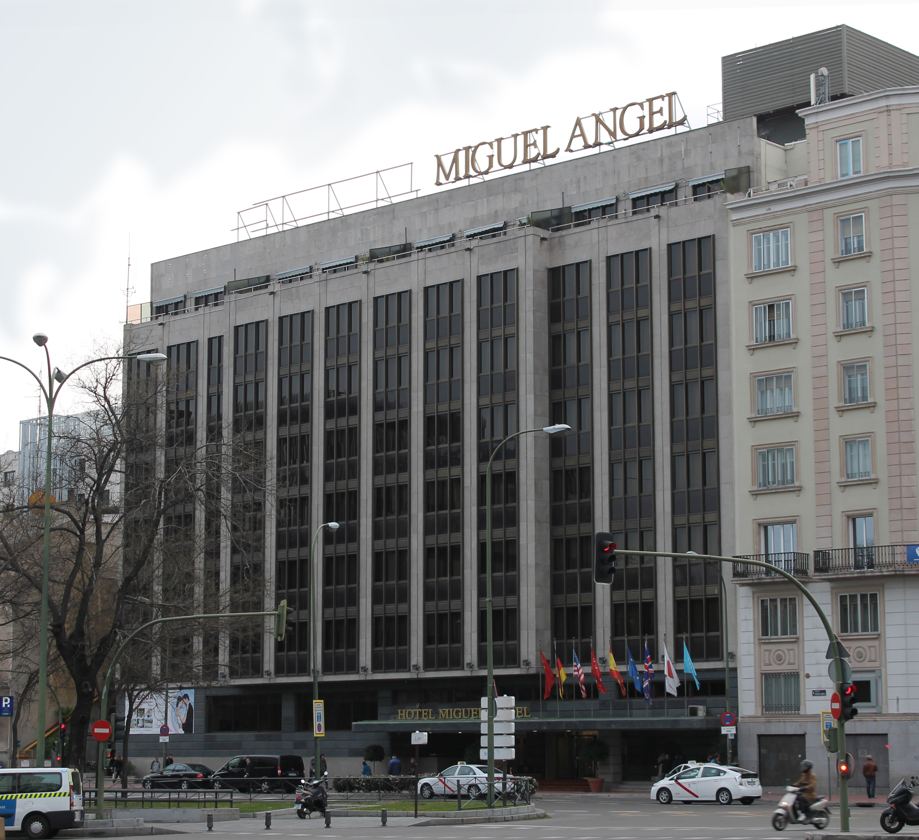 Façade of Hotel Miguel Ángel at 29 Calle de Miguel Ángel (street) in Madrid (Spain).